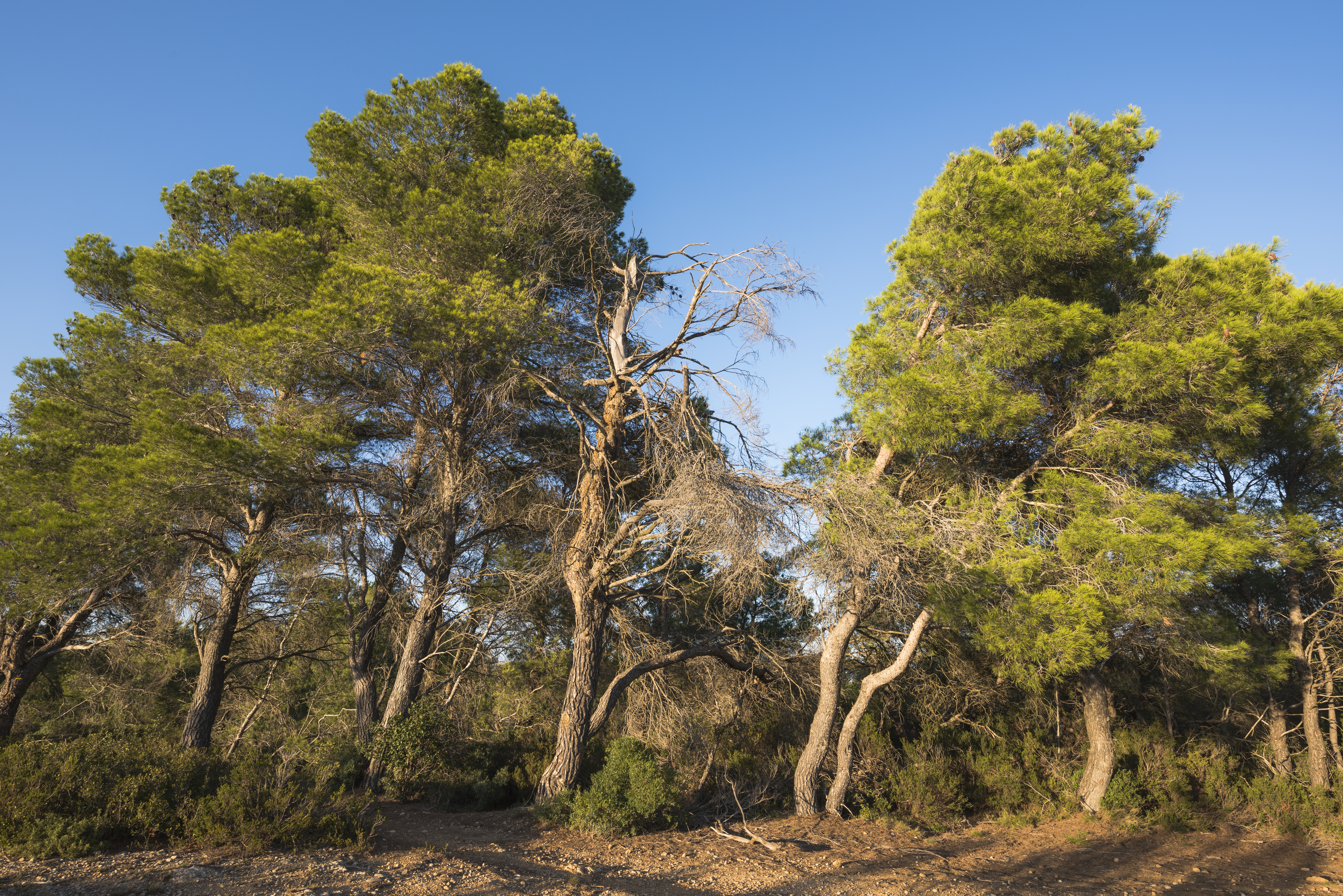 A grove of Aleppo Pines (Pinus halepensis). The trees are leaning because in this region there is omnipresent strong northern wind (Tramontane) or northwesterly wind (Mistral).